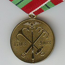 Reverse of the commemorative medal for 300 years of the city of St Petersburg.